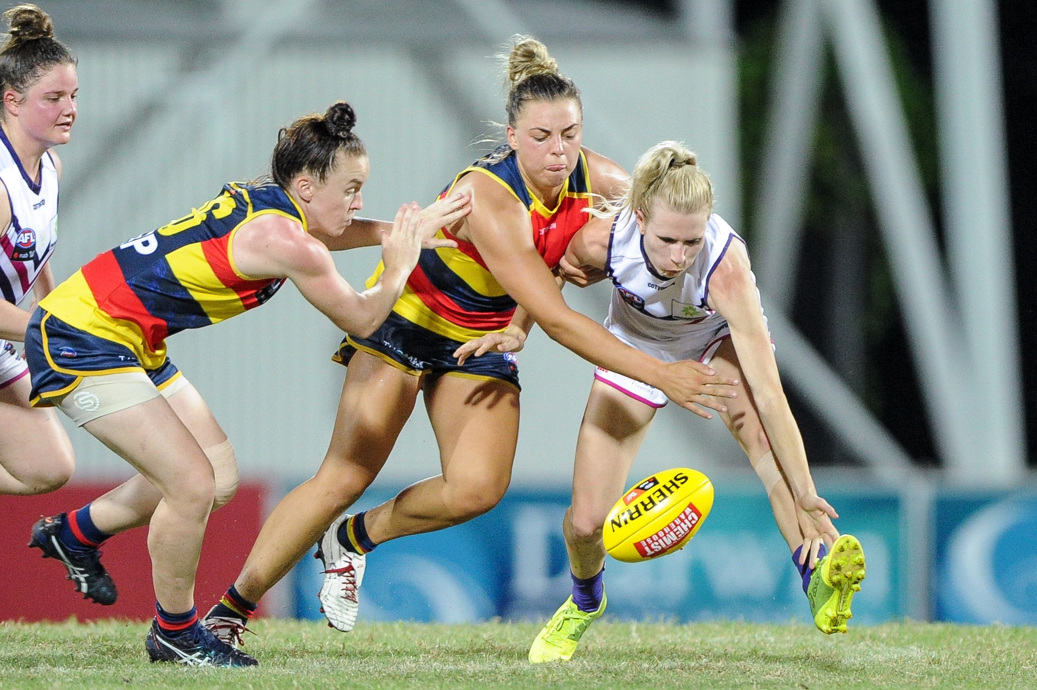 Sophie Armitstead, Ebony Marinoff and Dana Hooker contest in the AFL Women's preseason match between the Adelaide Football Club and Fremantle Football Club on 20 January 2018 at TIO Stadium.